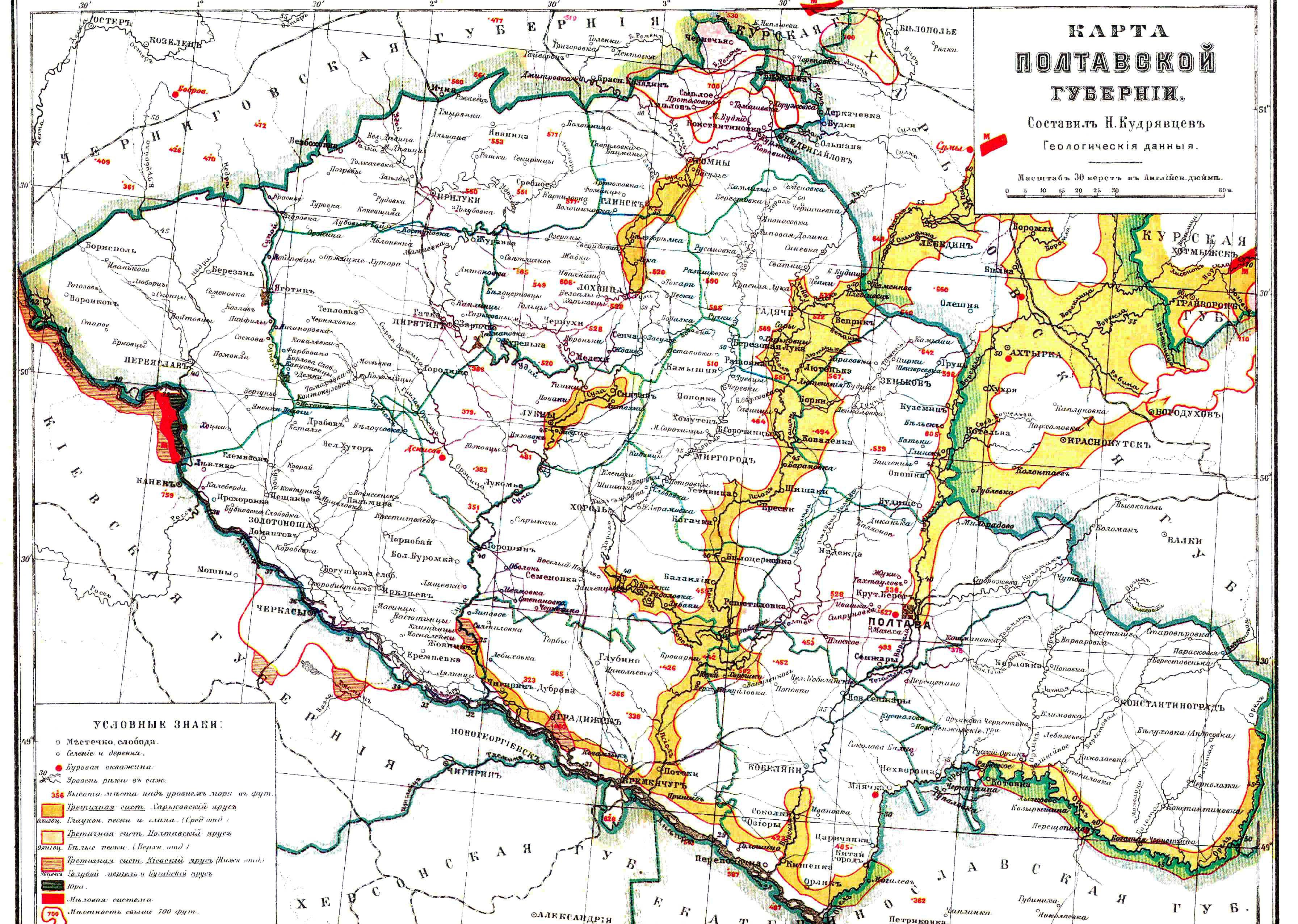 map of Poltava Governorate of the Russian Empire from the Brockhaus and Efron Encyclopedic Dictionary (issued before 1907)